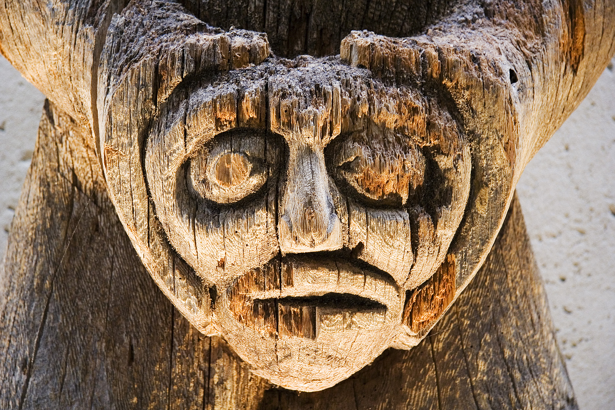 Totem pole close-up, Vancouver, Canada.